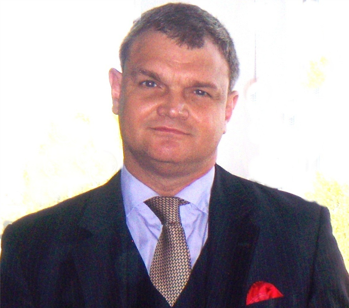 Kevin Brown, historian, archivist, curator and writer